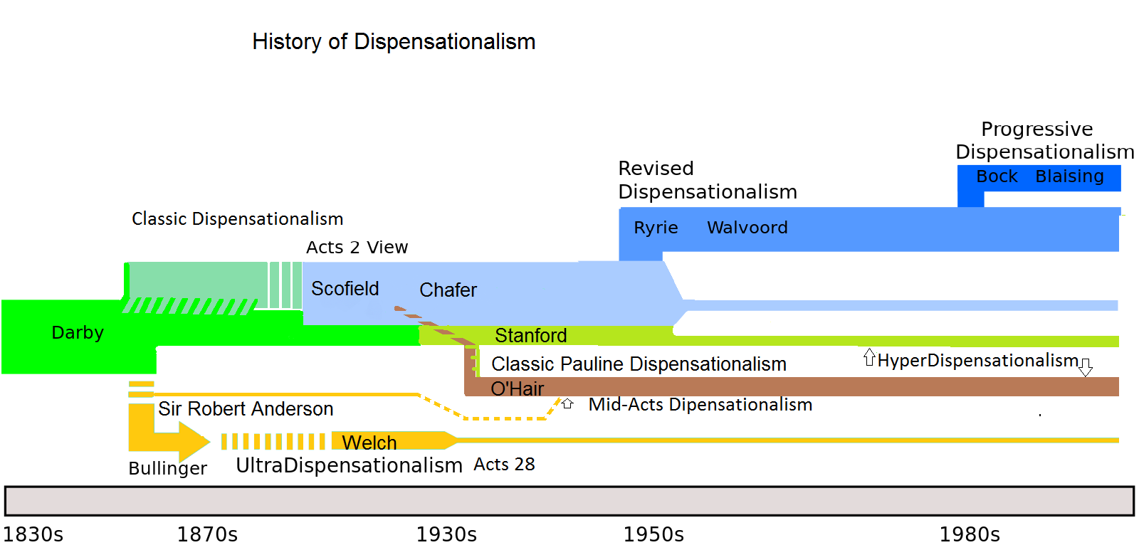 History of Dispensationalism Darby modified to show more accurately the development of various dispensational streams.